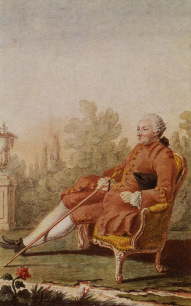 Portrait of Baron d'Holbach (1723-1789)